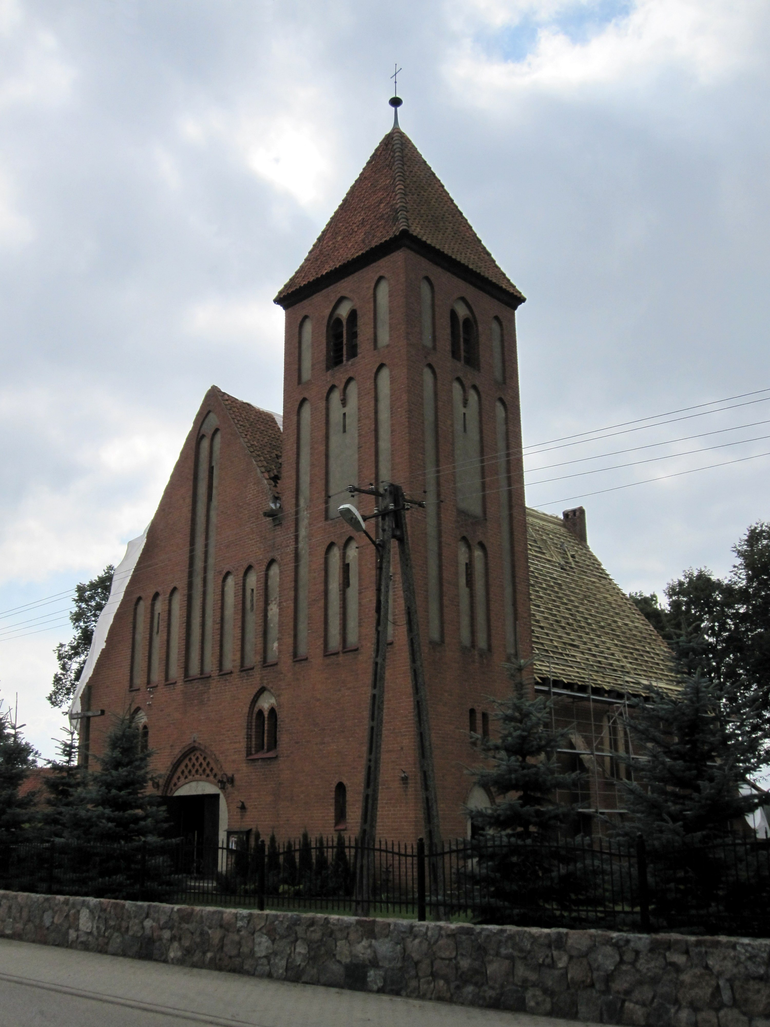 Our Lady of Czestochowa church in Turośl, piski county